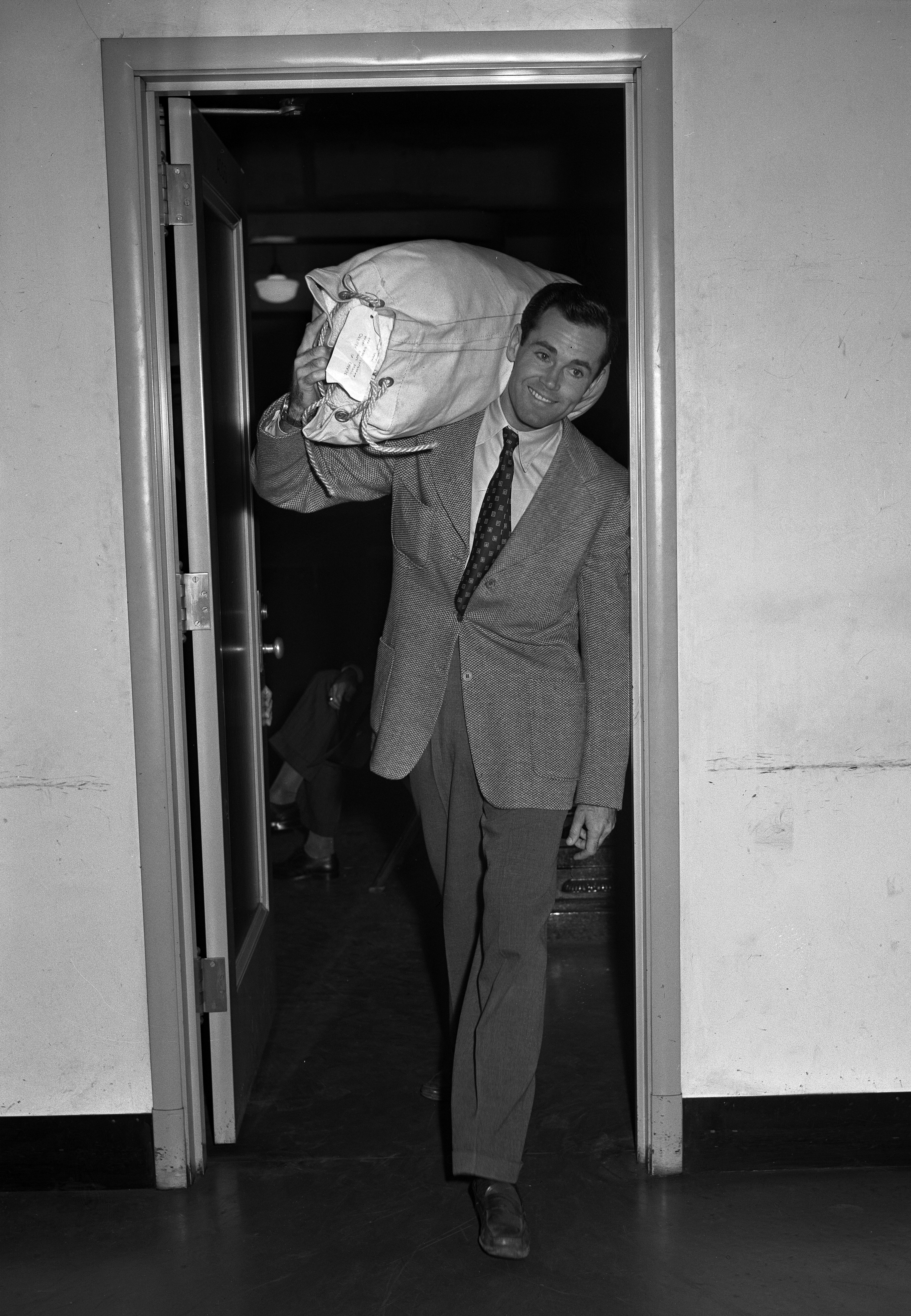 Henry Fonda, with a bag on the shoulder, after enlisting in United States Navy in November 1942.